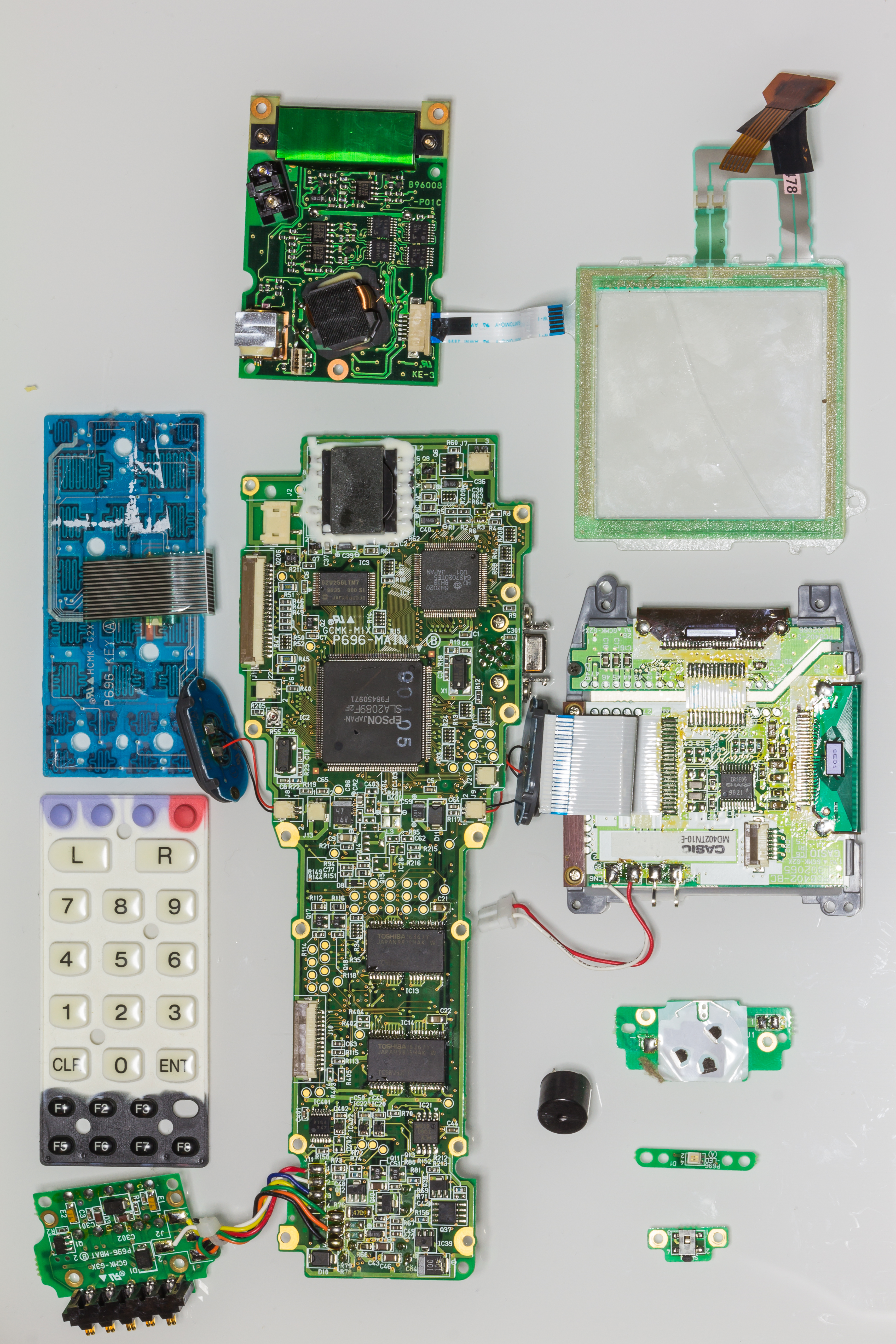 Barcode scanner Casio DT-800M70E - electronic components